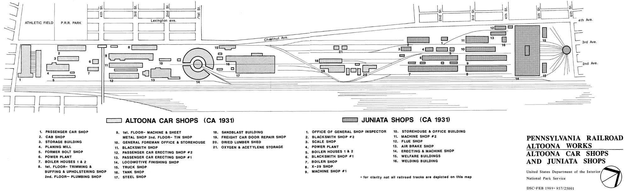 Map of the Pennsylvania Railroad Altoona Works